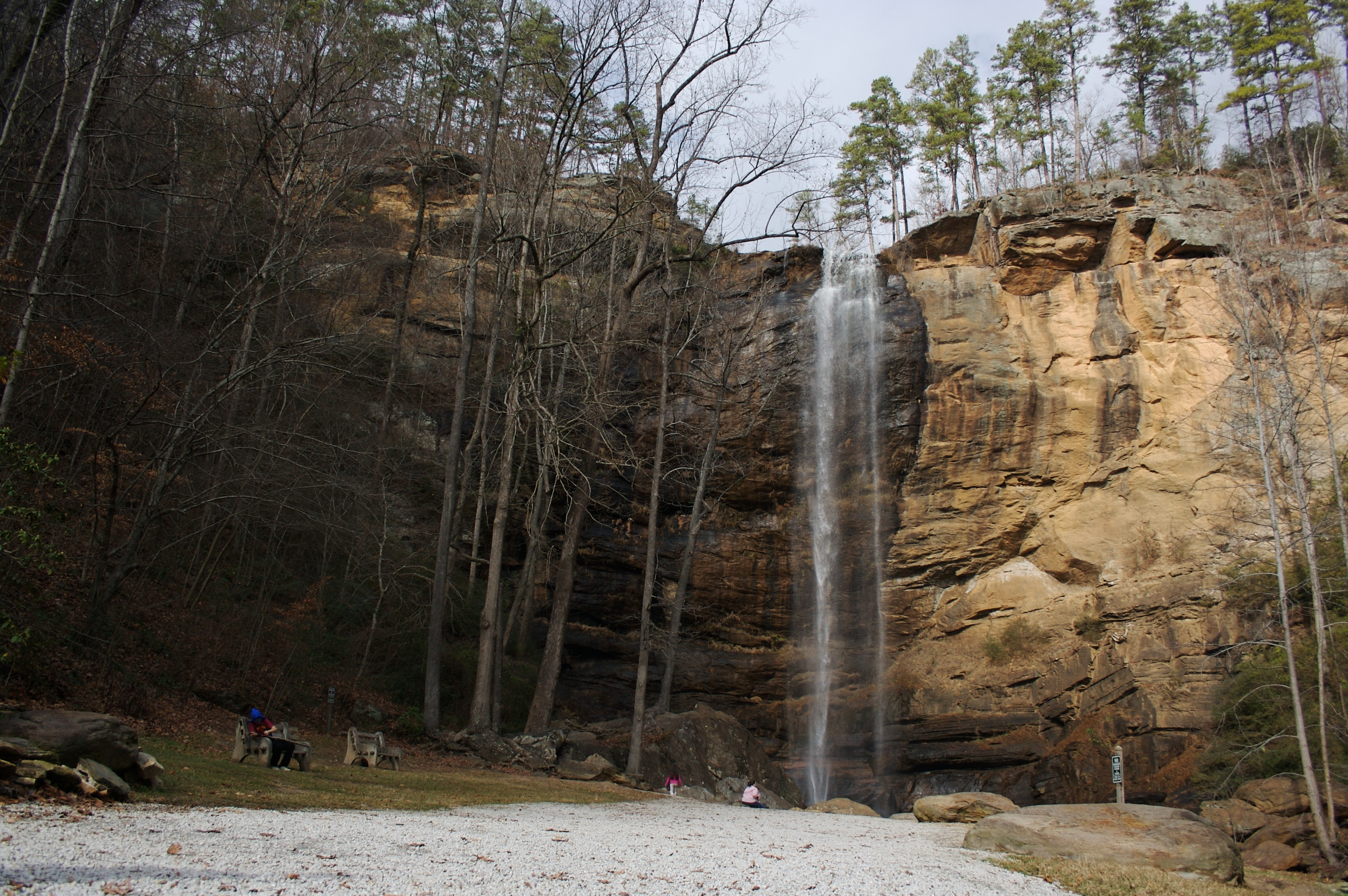 Picture of Toccoa Falls and memorial. Stephens County, Georgia.